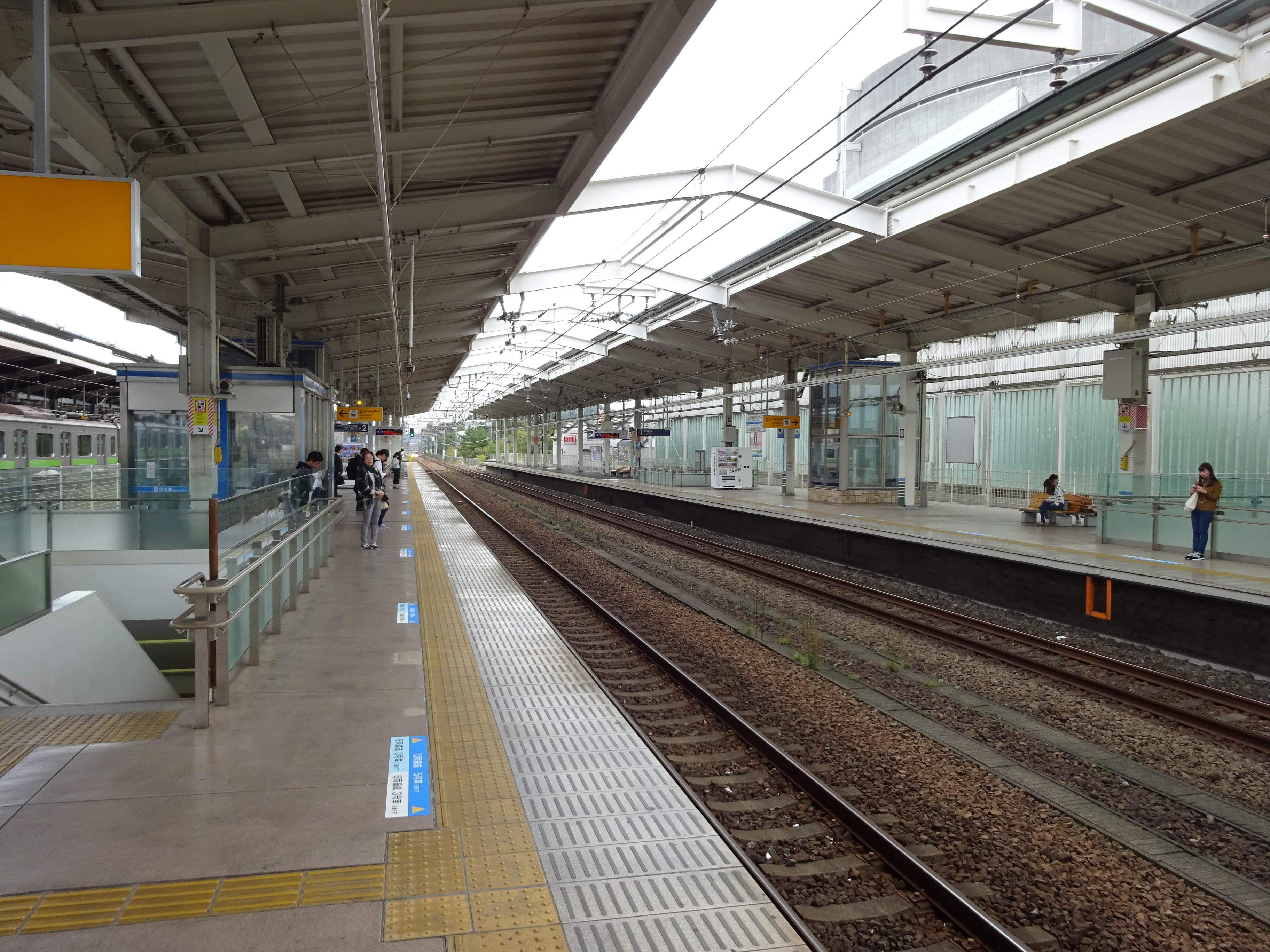 Platforms of Odakyū Tama-Center Station